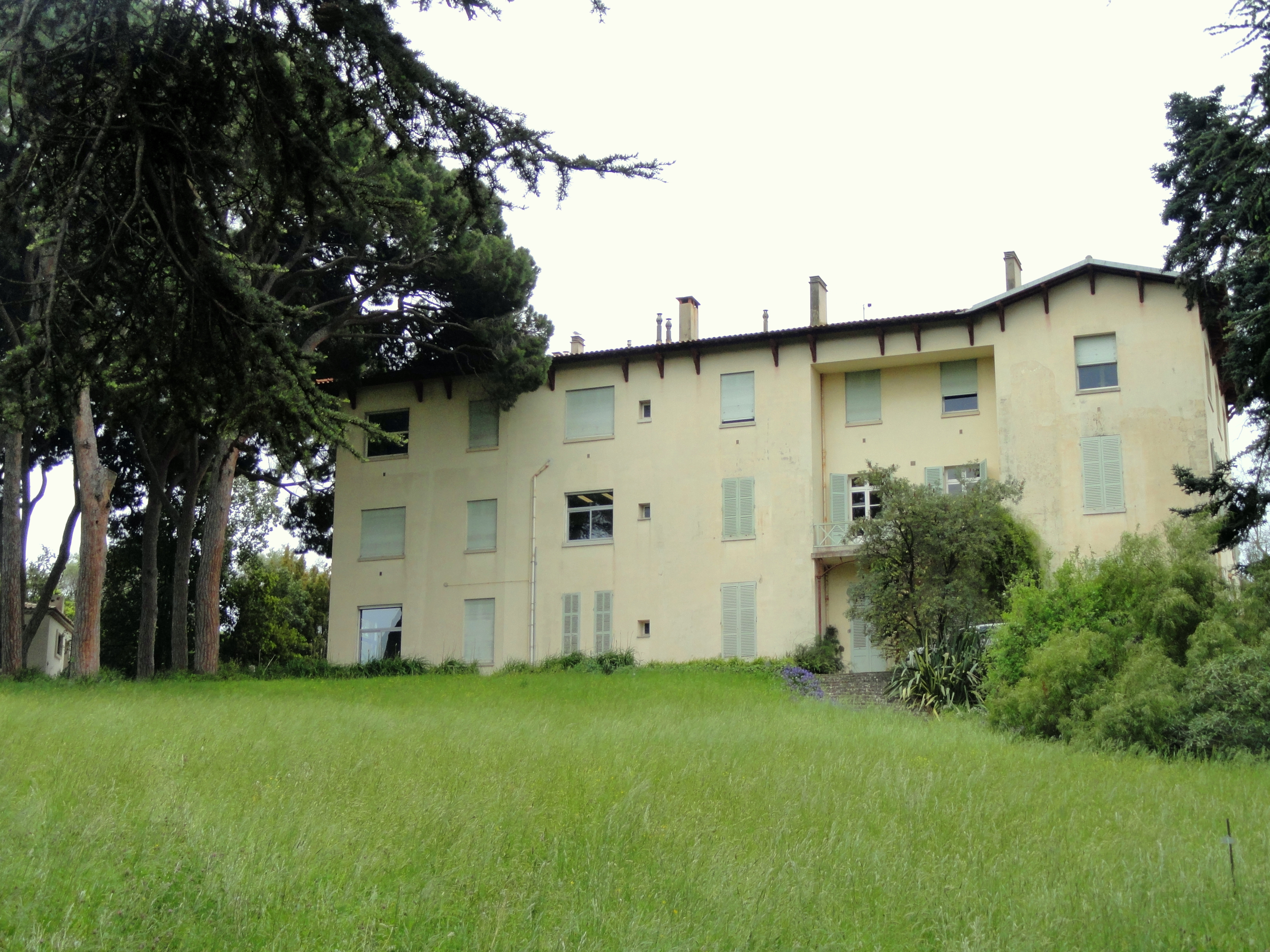 General view of the Jardin botanique de la Villa Thuret, Antibes Juan-les-Pins, Alpes-Maritimes,France.